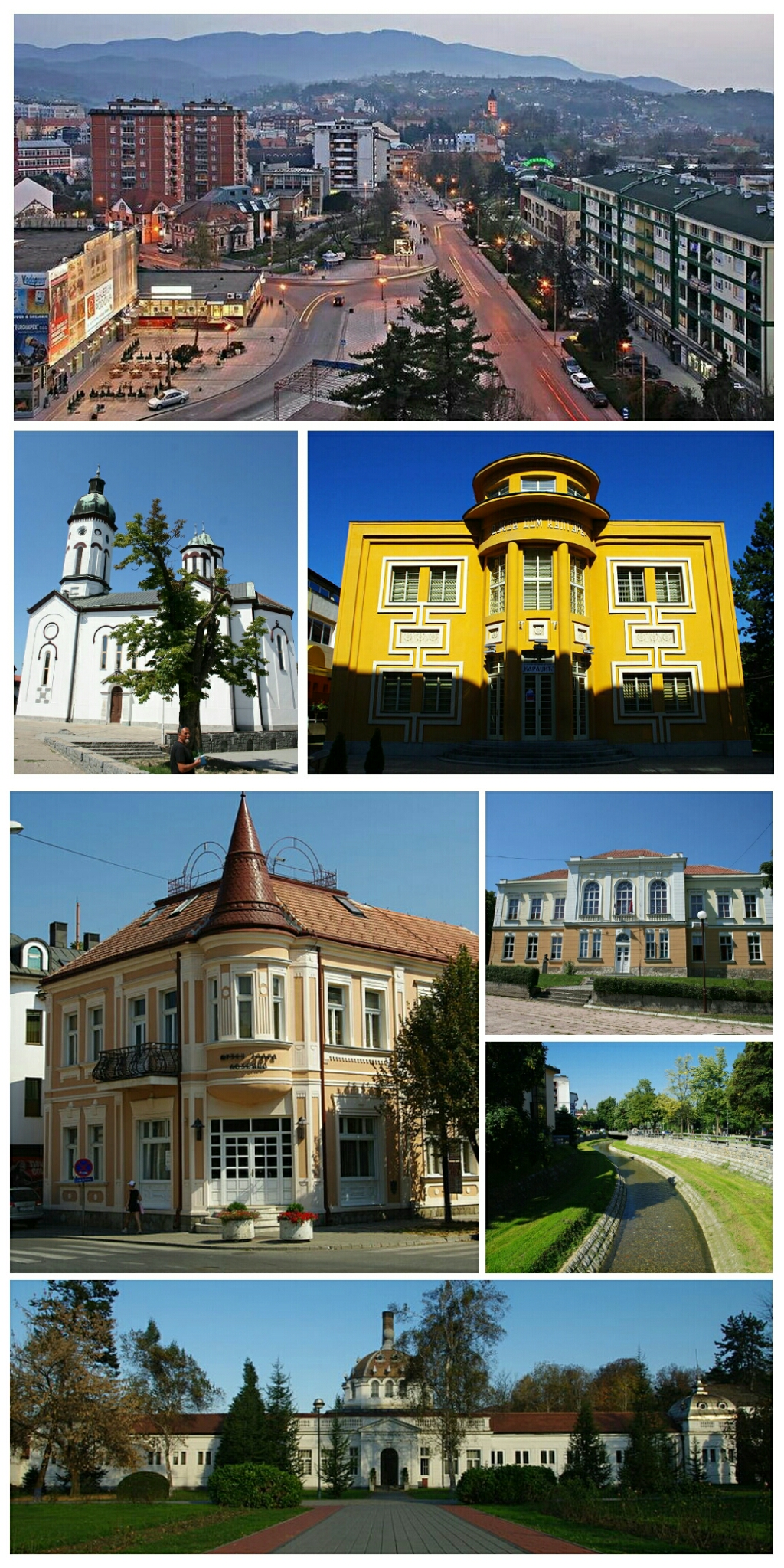 Photoshop of Loznica (Panoramic view of Loznica, Church of the Most Holy Theotokos, Cultural center, Loznica city museum, Elementary school "Anta Bogićević", Small river Štira, King I Peter's bath in Banja Koviljaca)